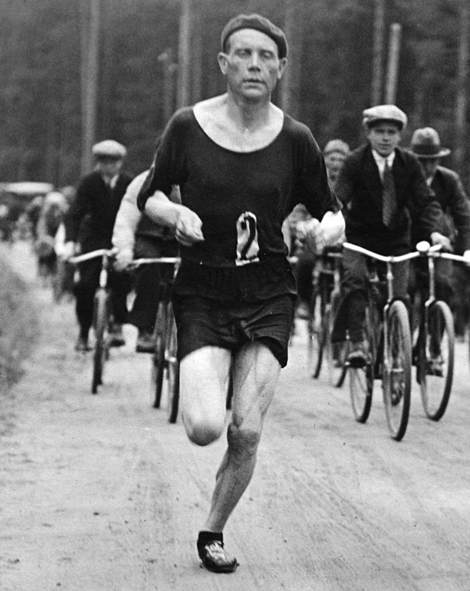 Paavo Nurmi runs his first and only marathon at the 1932 Olympic trials in Viipuri. After setting an unofficial world record for the short marathon (40.2 km; 25 miles), Nurmi retired from the race due to problems with his Achilles tendon.